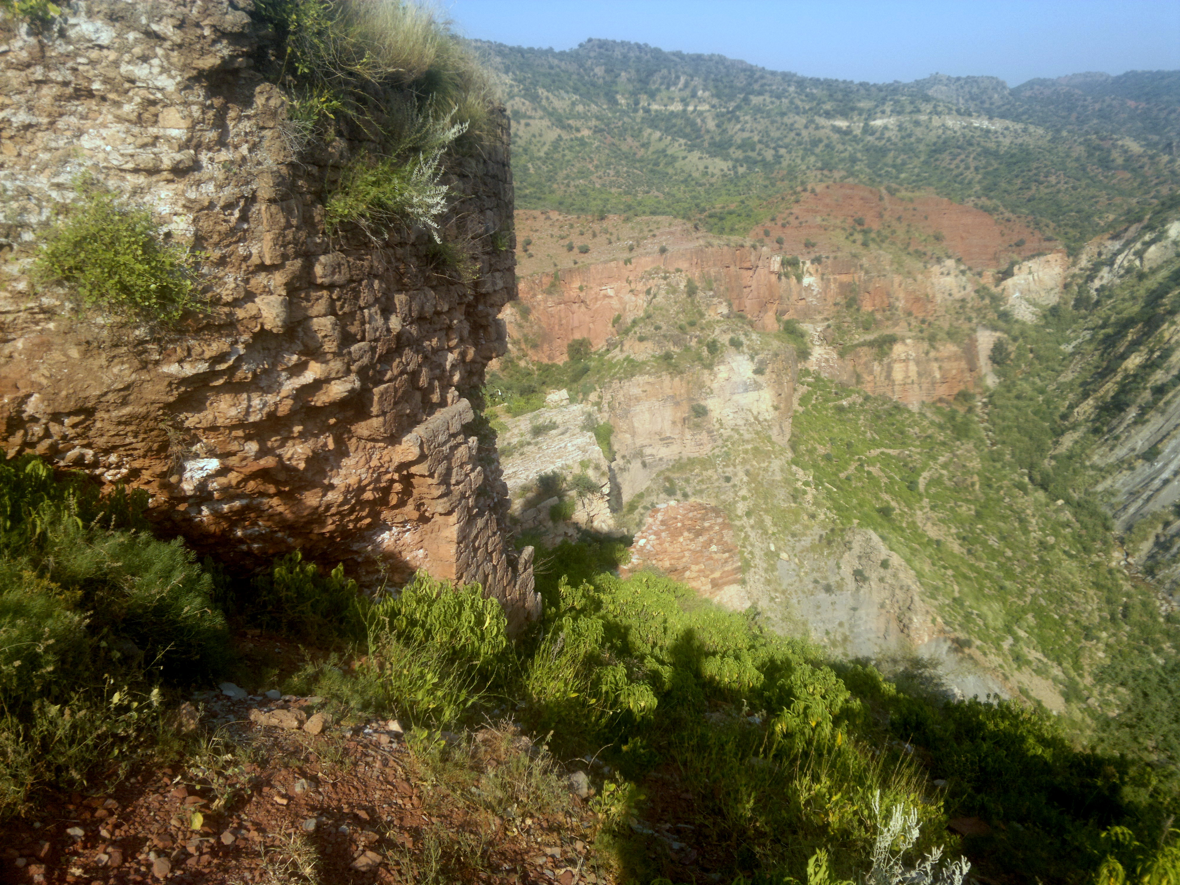 Ruins of Nandana This is a photo of a monument in Pakistan identified as the PB-35